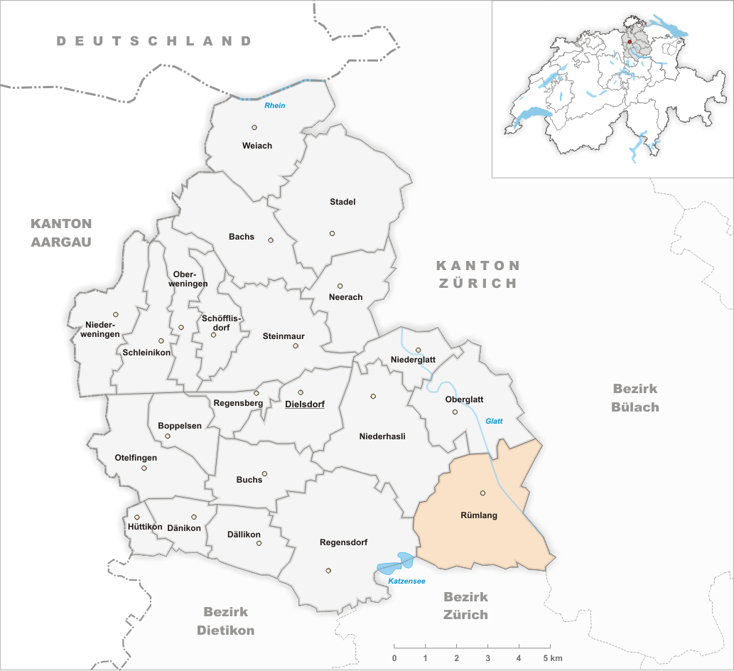 Municipality Rümlang